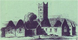 An image of Ross Errilly Friary from William Wilde's 1867 book, Lough Corrib, Its Shores and Islands, now out of copyright. Also available here .